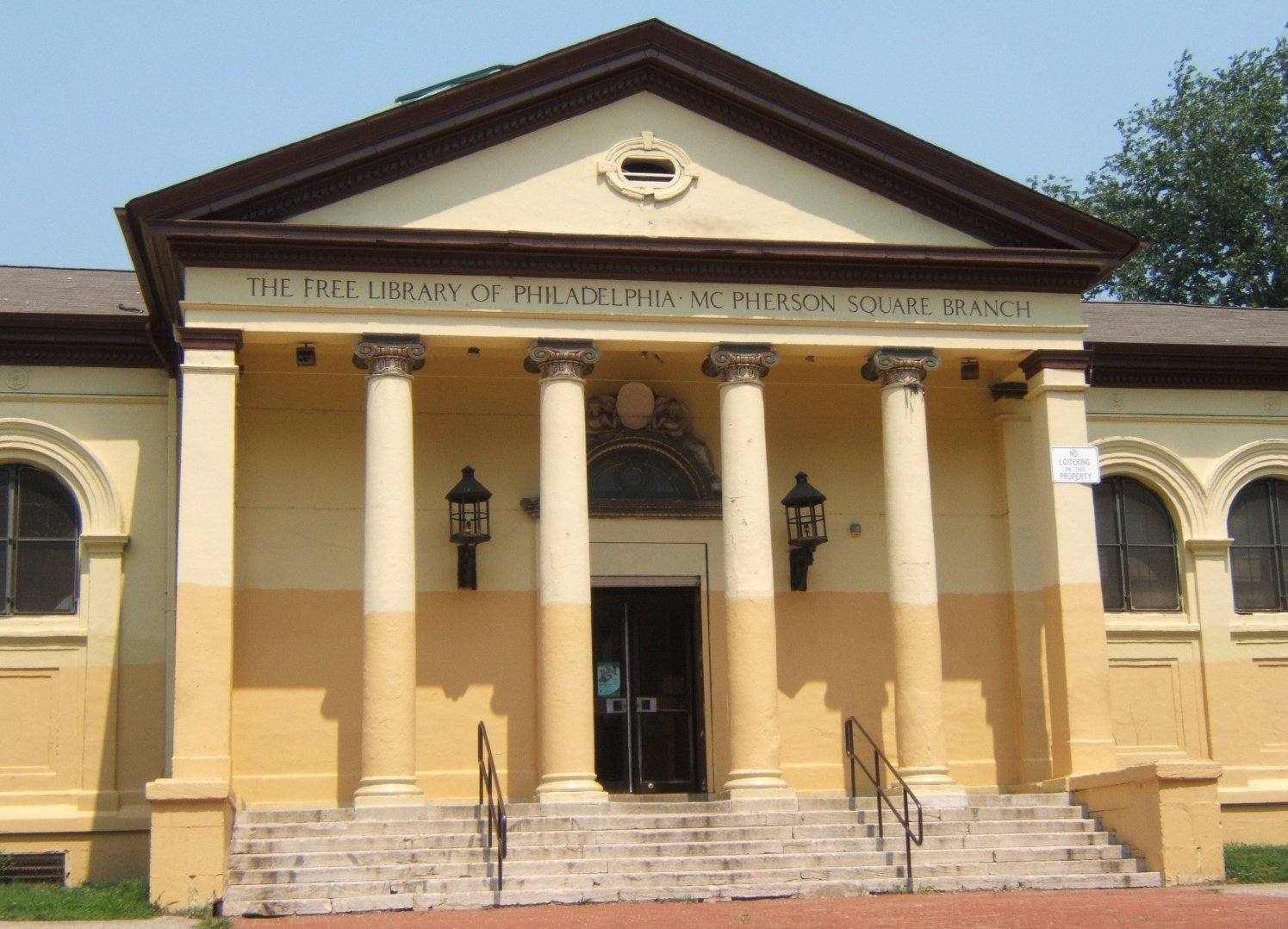 Free Library of Philadelphia, McPherson Square Branch, 601 East Indiana Avenue, Philadelphia, PA 19134-3042